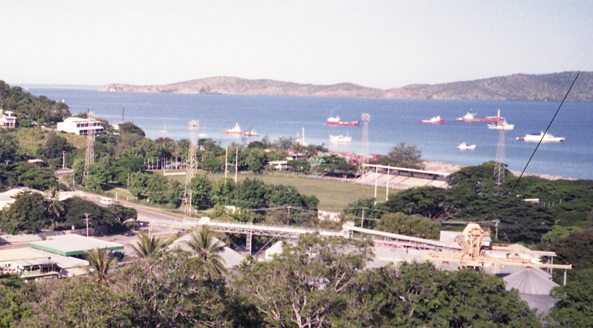 Sir Hubert Murray Stadium, taken from Konedobu on Kodak film on 17 Mar 1993.